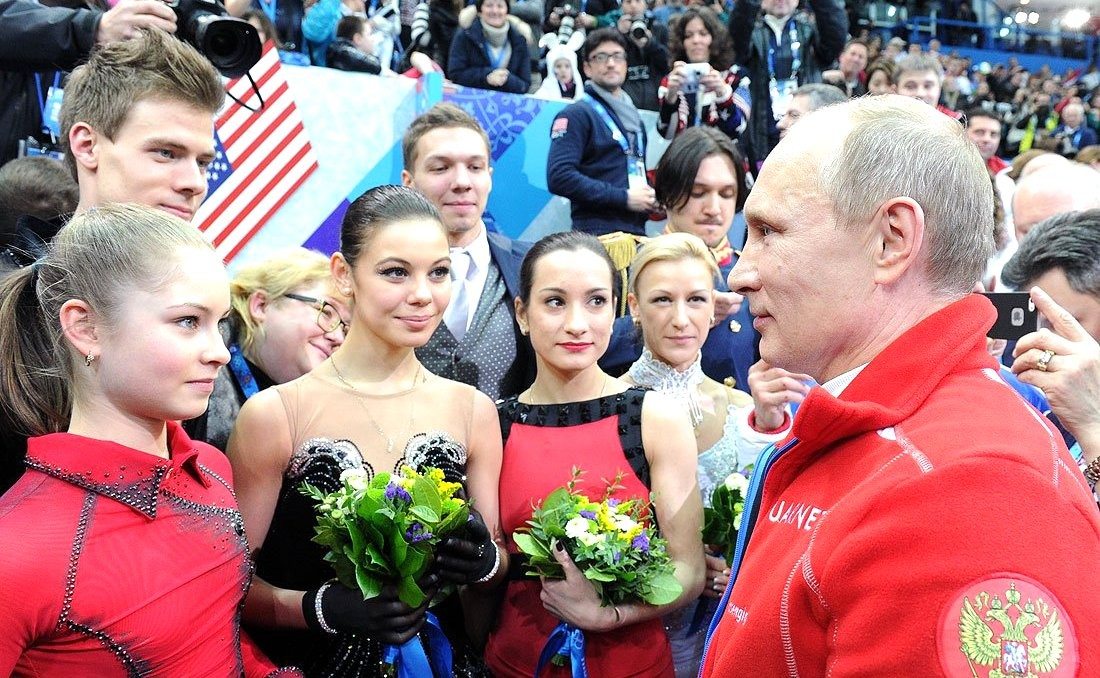 Vladimir Putin visited the Iceberg Skating Palace, where he watched the team figure skating competition (2014-02-09).